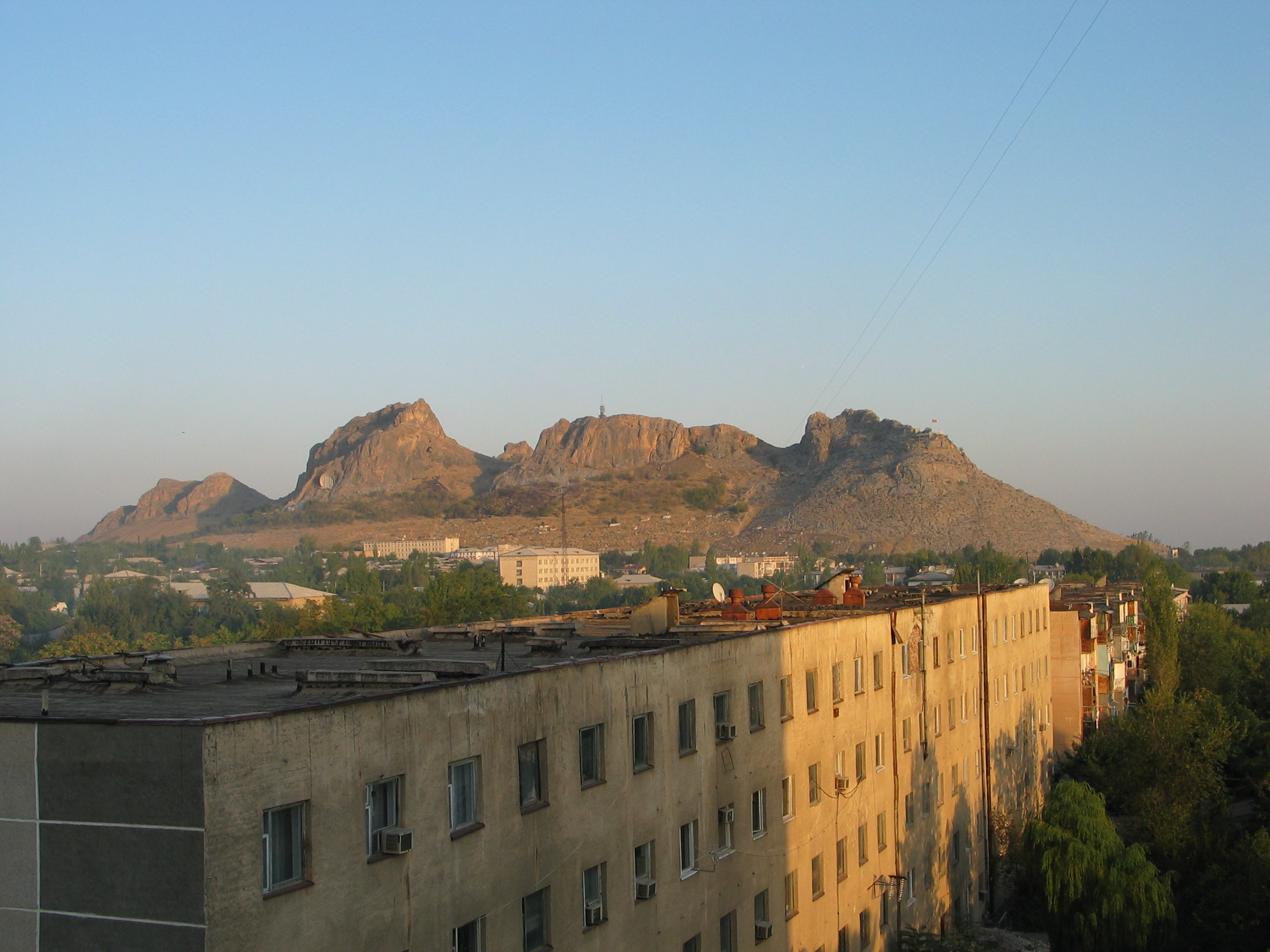 Suleiman Hill, Osh, Kyrgyzstan